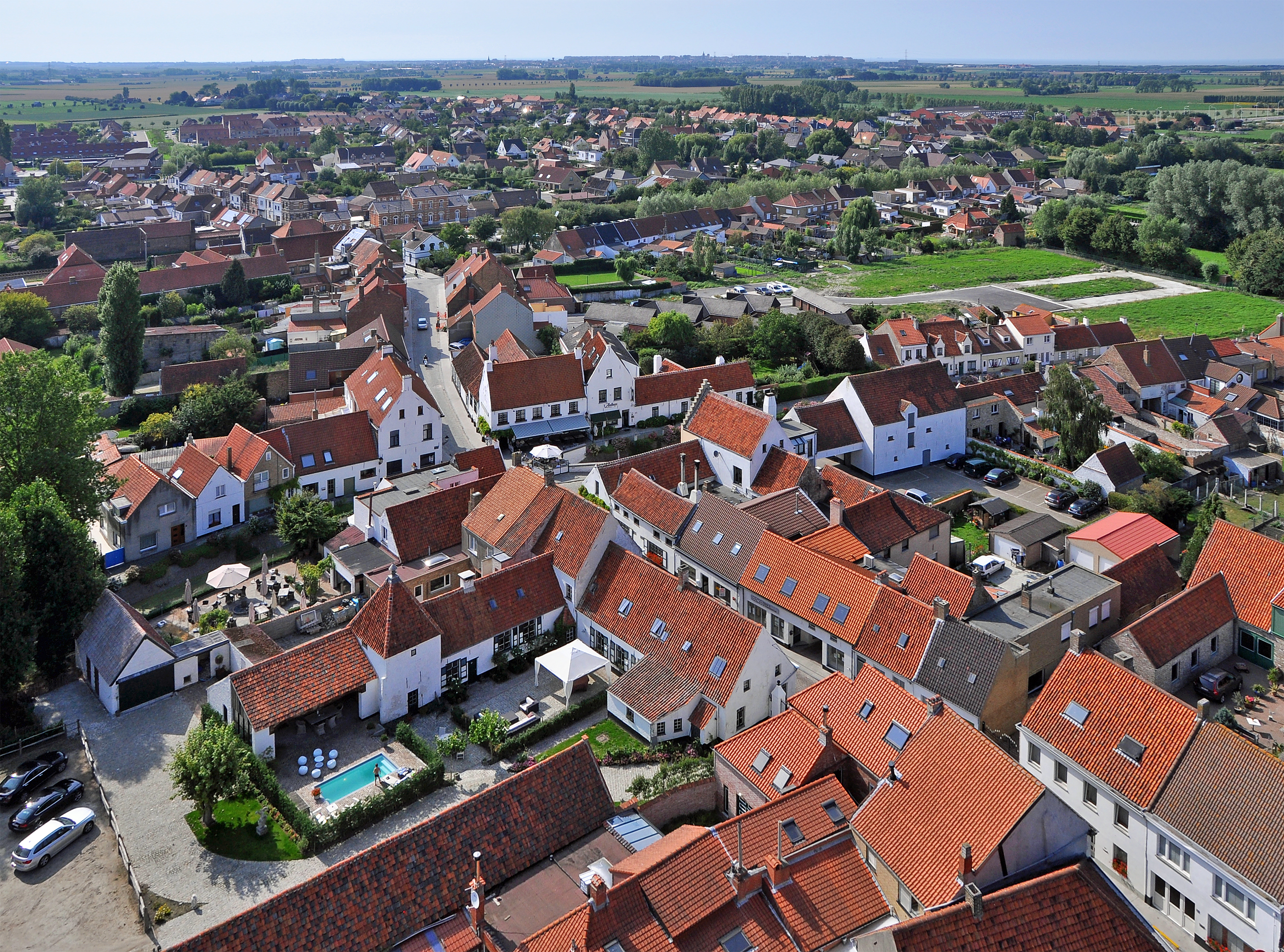 Lissewege (Bruges, Belgium): general view of the village